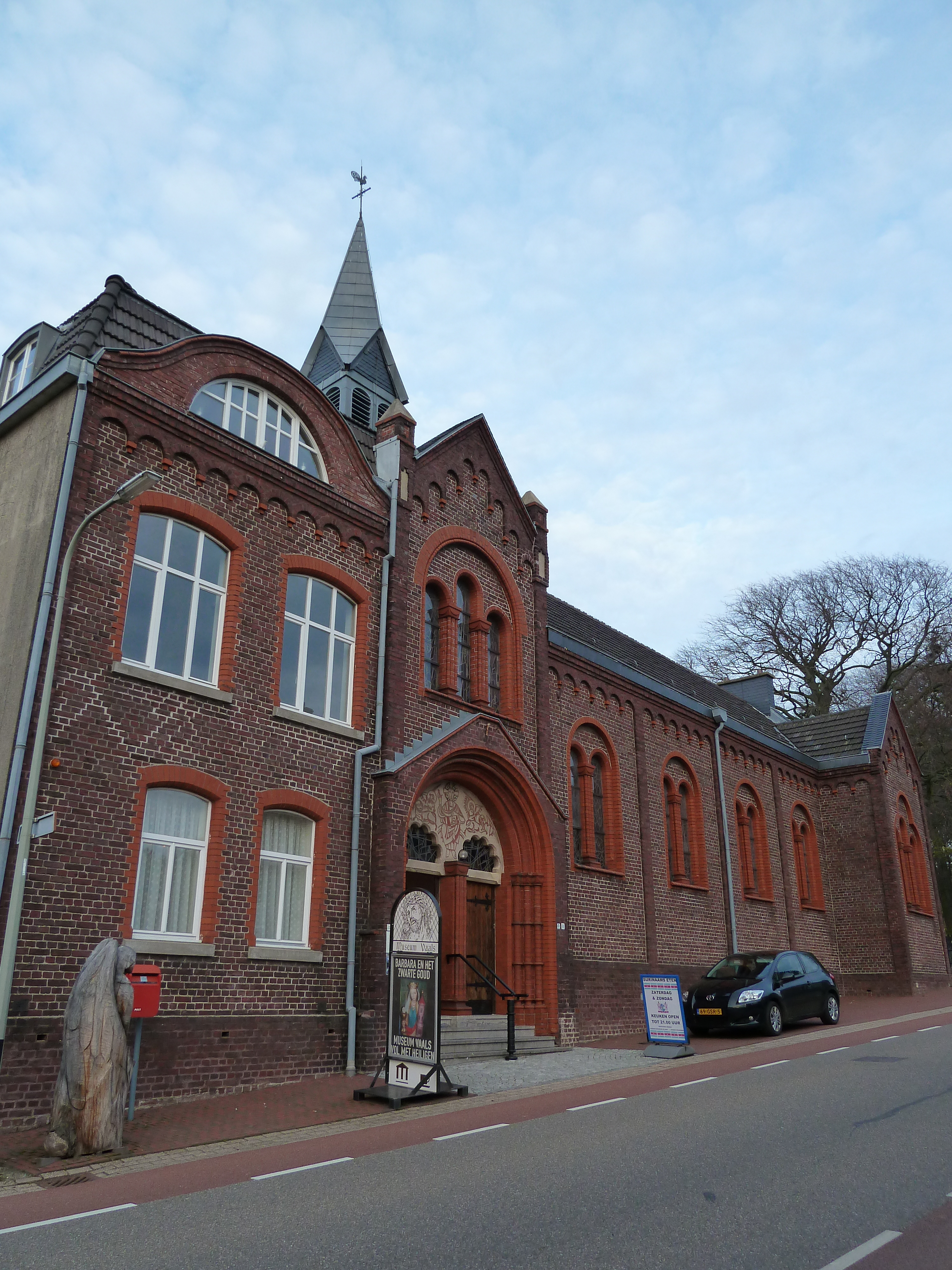 Eschberg 7, Vaals, Limburg, the Netherlands